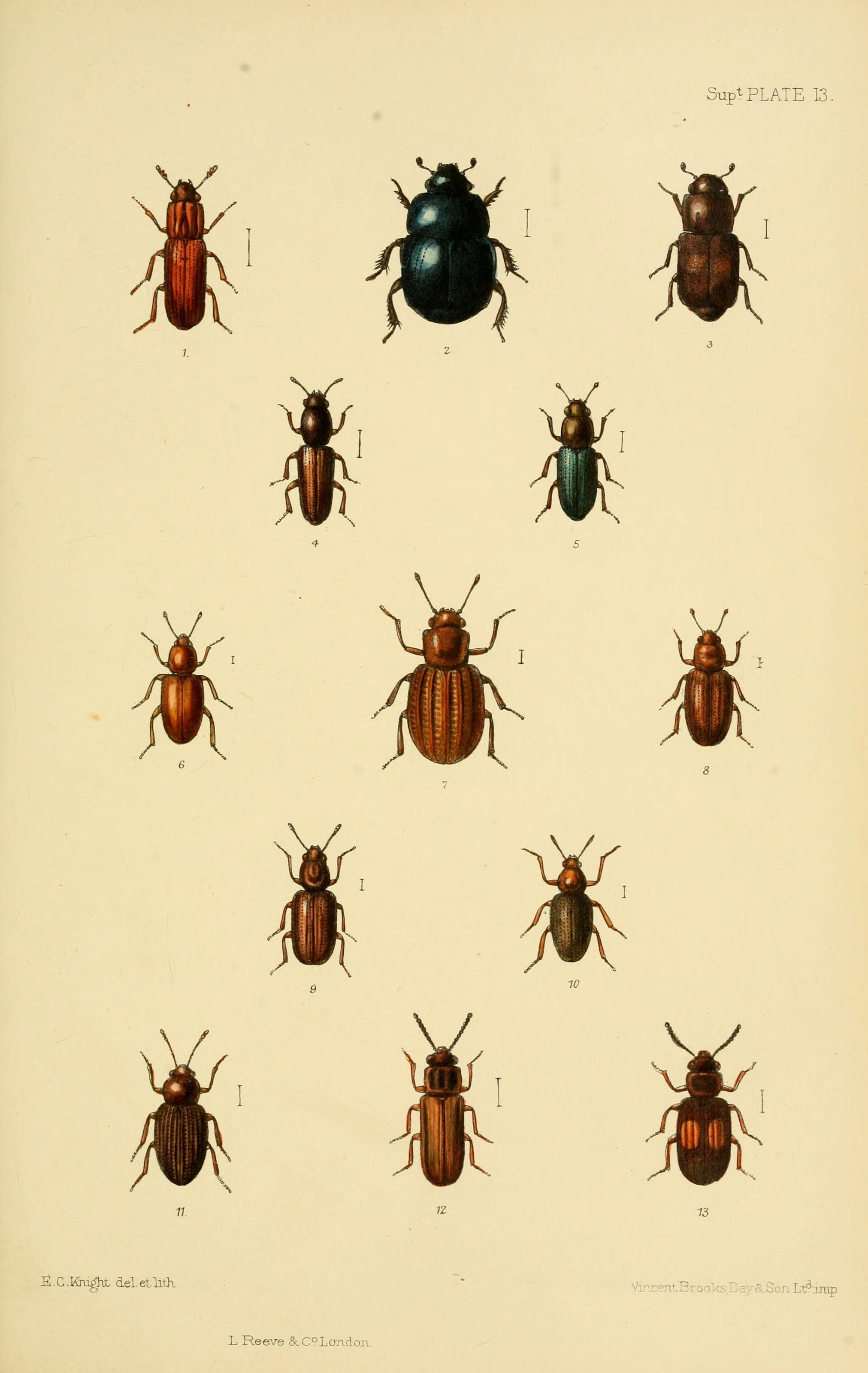 Supt PLATE 13. E.C.Kmght deletlitK s'i_'\c'='ntETOo'ks,B ay&. Son Lt^oraj) L Reeve &.C°London.